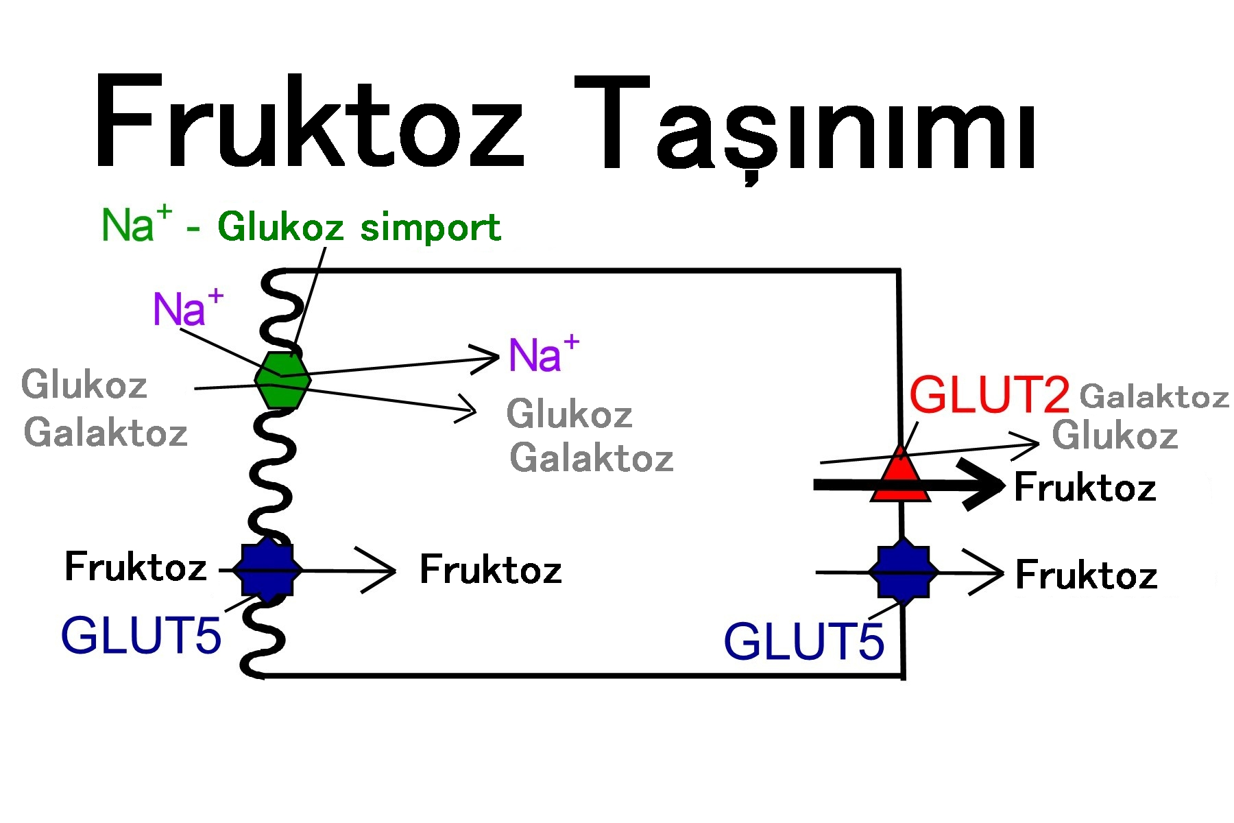 Intestinal monosaccharide transporters